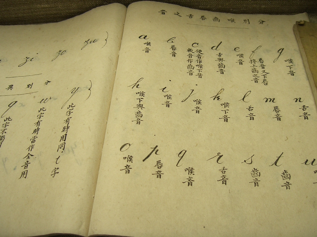 This is a schoolbook that was used by the boy emperor Puyi (爱新觉罗溥仪). Seen at an exhibition at the Forbidden City, Beijing, China. (The page shown is explaing in chinese how and where in the mouth to pronounce the latin letters)